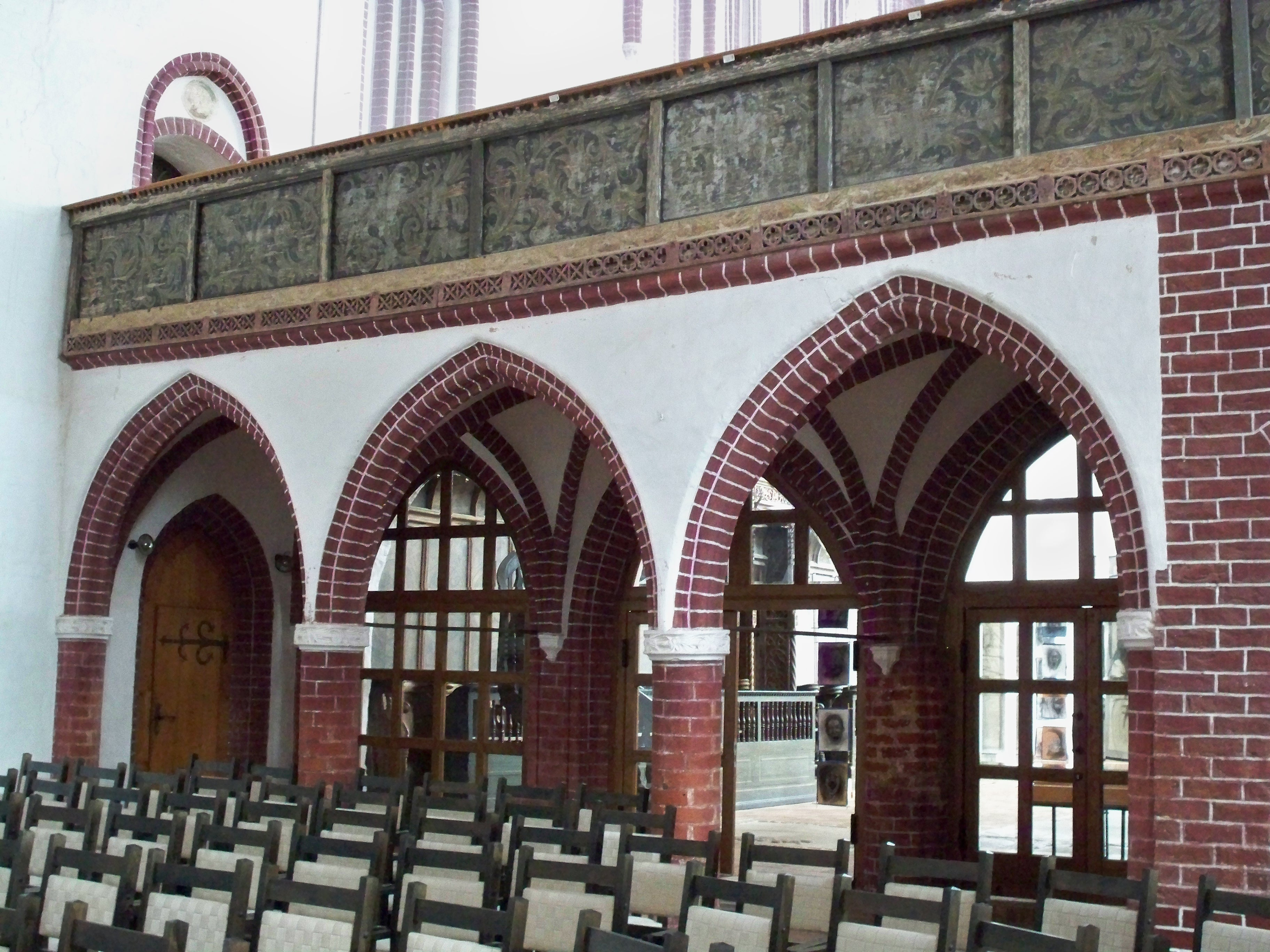 Interior of Mönchskirche Salzwedel